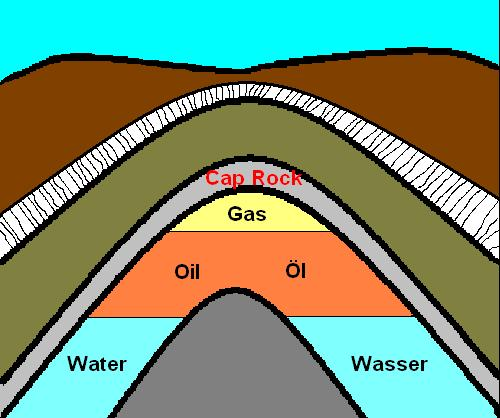 Drawing of an oil reservoir anticline trap